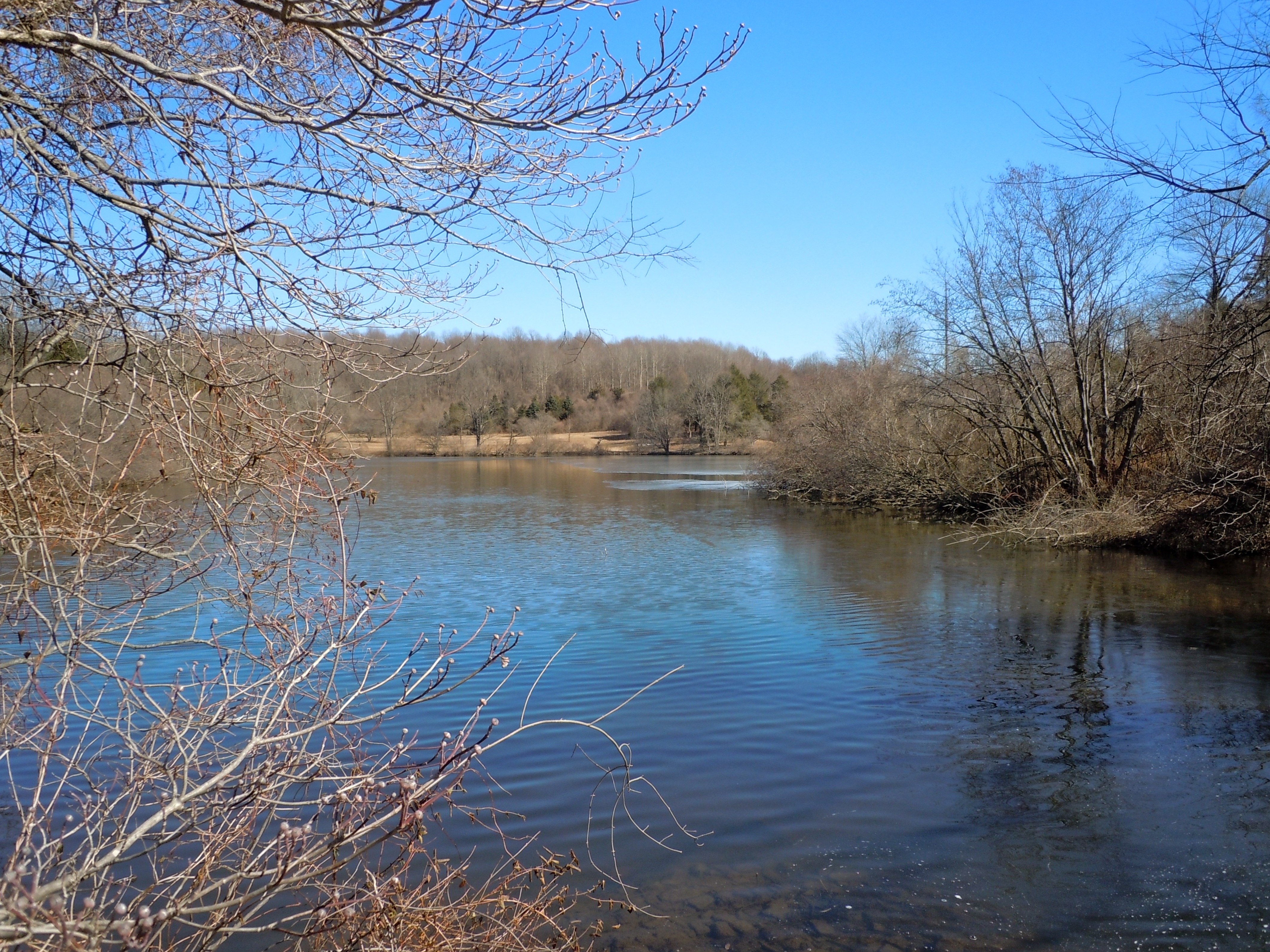 Lake at Welkinweir (arboretum, nature/watershead preserve) on the NRHP since September 7, 2001. At 1368 Prizer Road, East Nantmeal Township, Chester County, Pennsylvania. Sort of near Birchrunville, PA